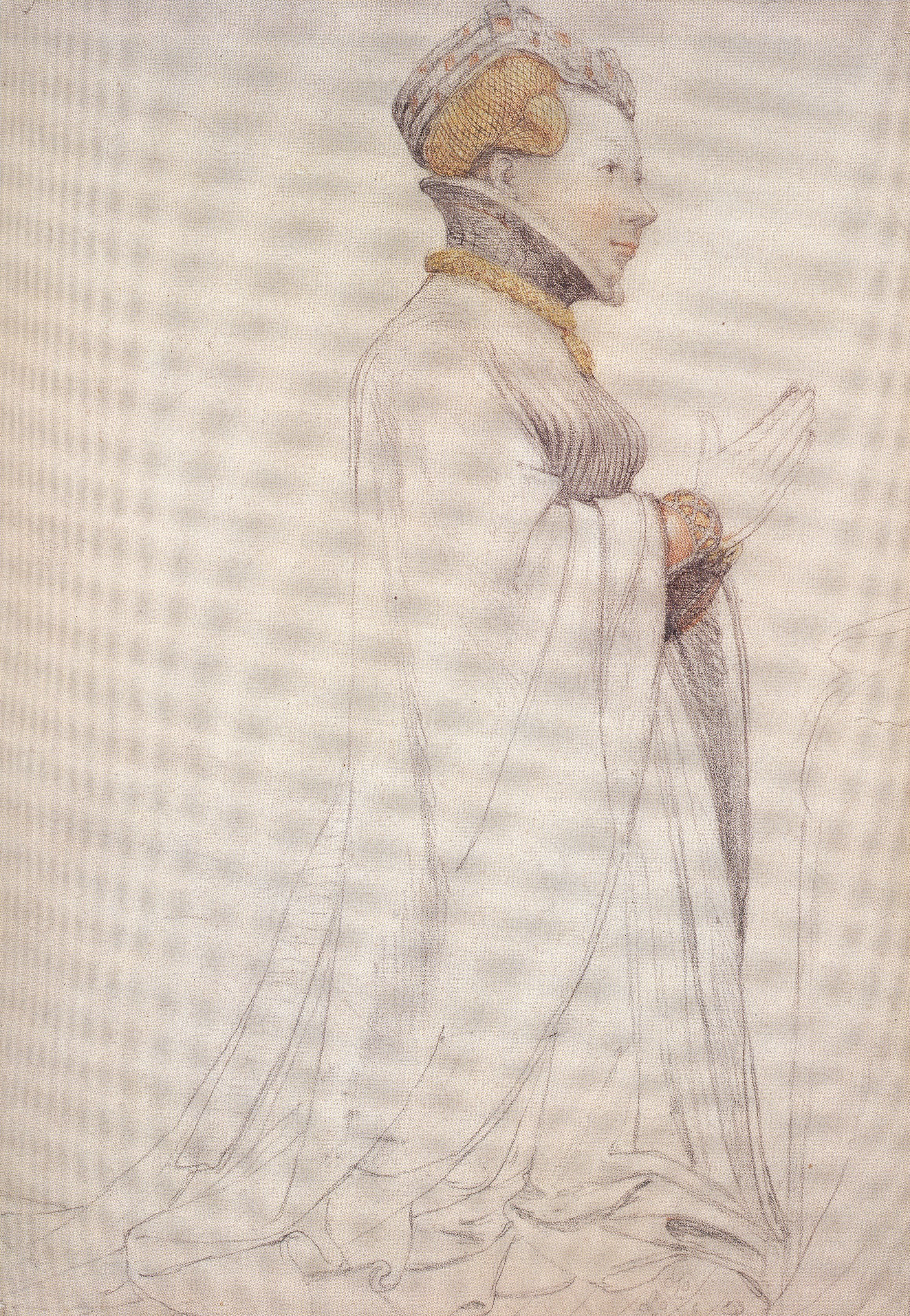 Jean de Boulogne, Duchess of Berry, study of a sculpture by Jean de Cambrai. Black and coloured chalk, 39.6 × 27.5 cm, Kunstmuseum Basel. Holbein drew this picture and its companion piece, Jean de France, Duke of Berry, during a visit to France in 1523/24, where he was probably seeking work with Francis I of France. The two sculptures drawn by Holbein were life-sized limestone effigies of Jean, Duke of Berry (1340–1416), and his second wife, Jeanne de Boulogne (1378–1424). At that time, the sculptures were in the chapel of the duke's palace in Bourges; they are now in Bourges Cathedral. Holbein's drawings were used as guides during a restoration of the statues, when 19th-century additions were removed. The two drawings are significant for Holbein scholars in providing direct evidence of the artist's visit to France and as the first example of his exclusive use of coloured chalks. He may have adopted the technique after seeing the drawings of Jean Clouet and other artists of the French school. However, he had already used chalks in his silverpoint drawings, and the technique was not unknown in Augsburg and Basel, where he practised his art. (Müller in Christian Müller; Stephan Kemperdick; Maryan Ainsworth; et al, Hans Holbein the Younger: The Basel Years, 1515–1532, Munich: Prestel, 2006, ISBN 9783791335803, pp. 316–17).